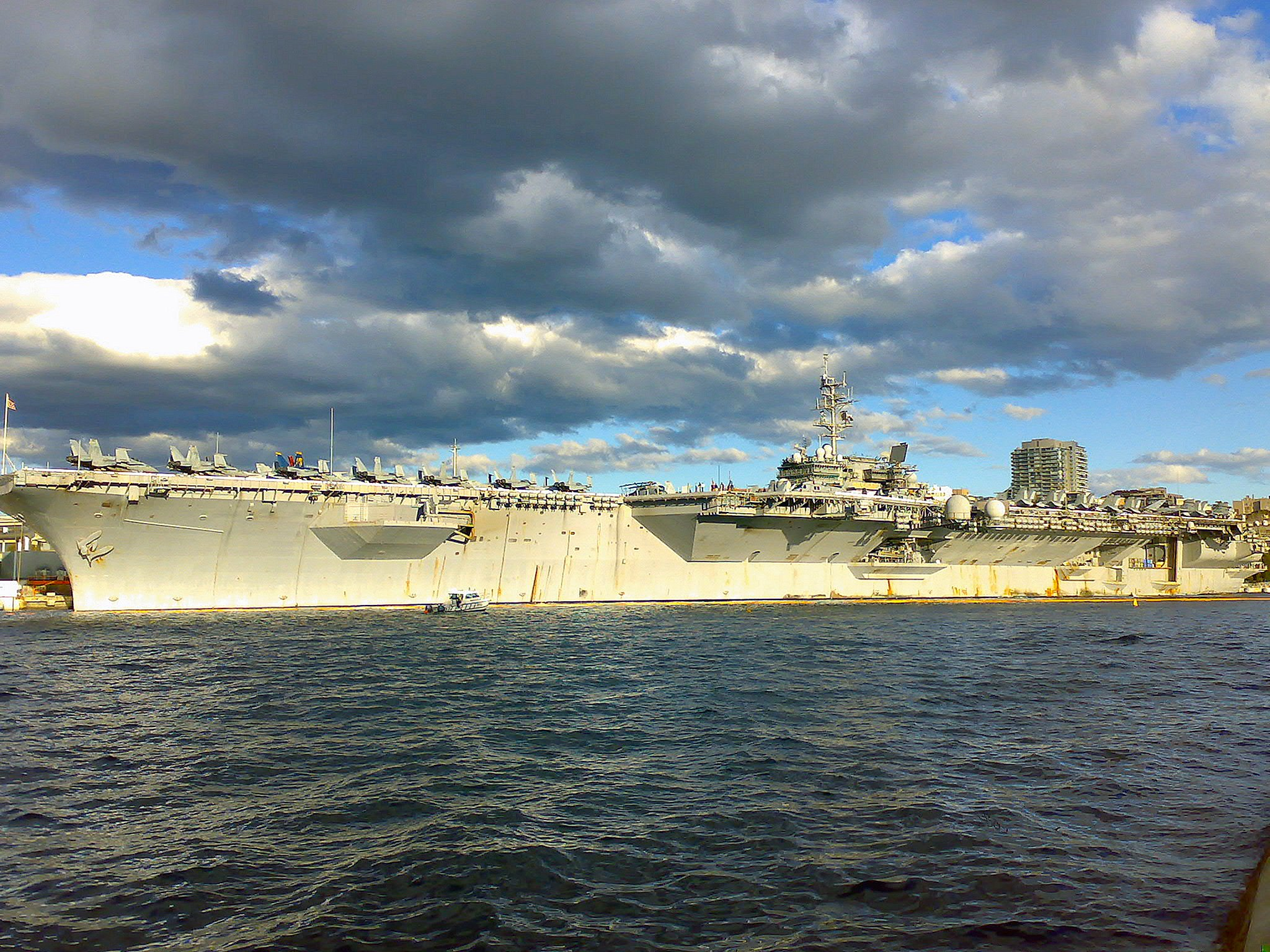 A photography of the USS Kitty Hawk in Sydney, Australia, taken in 2007